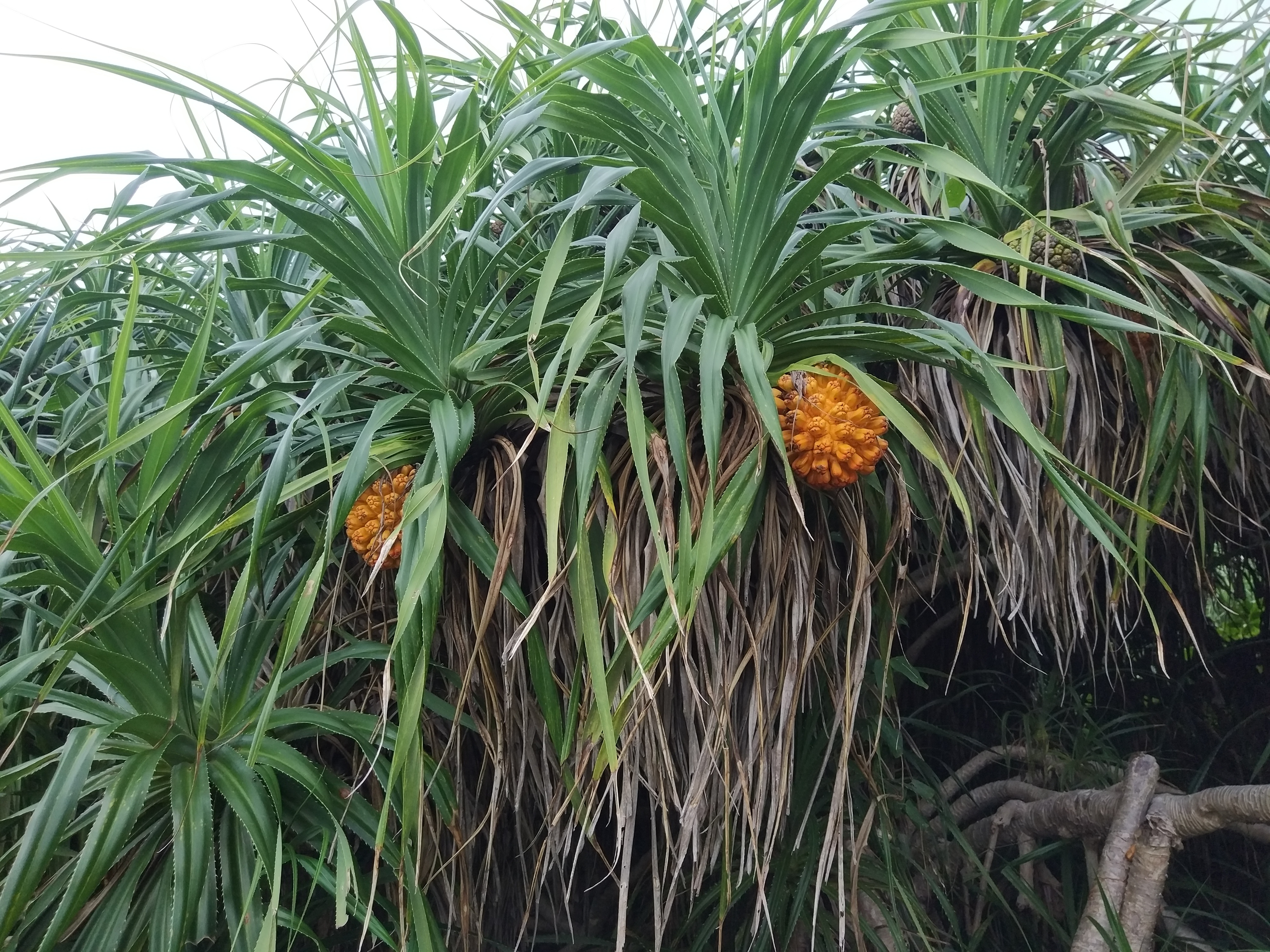 This picture is on Sanxiantai,Taitung County.